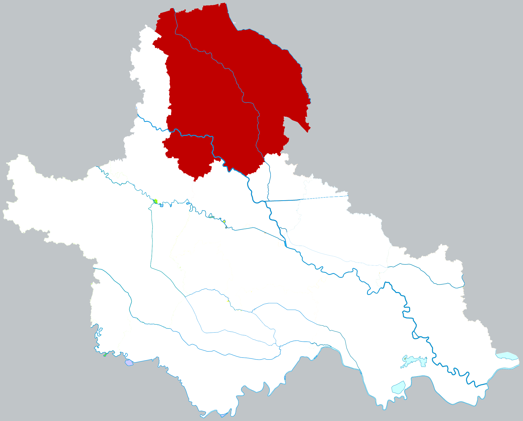 Location of Taihe county in Fuyang city, China